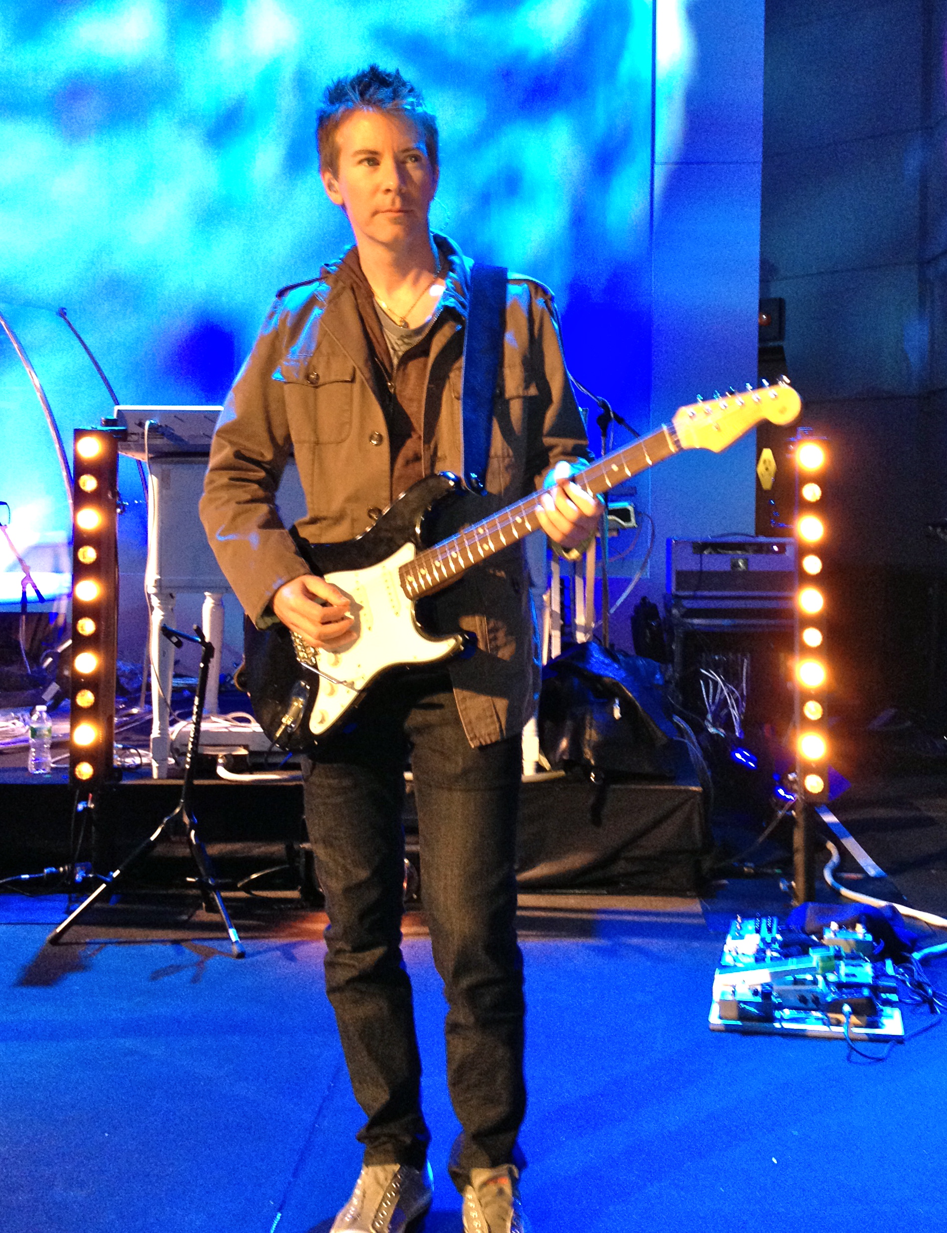 Emerson Swinford, guitarist.